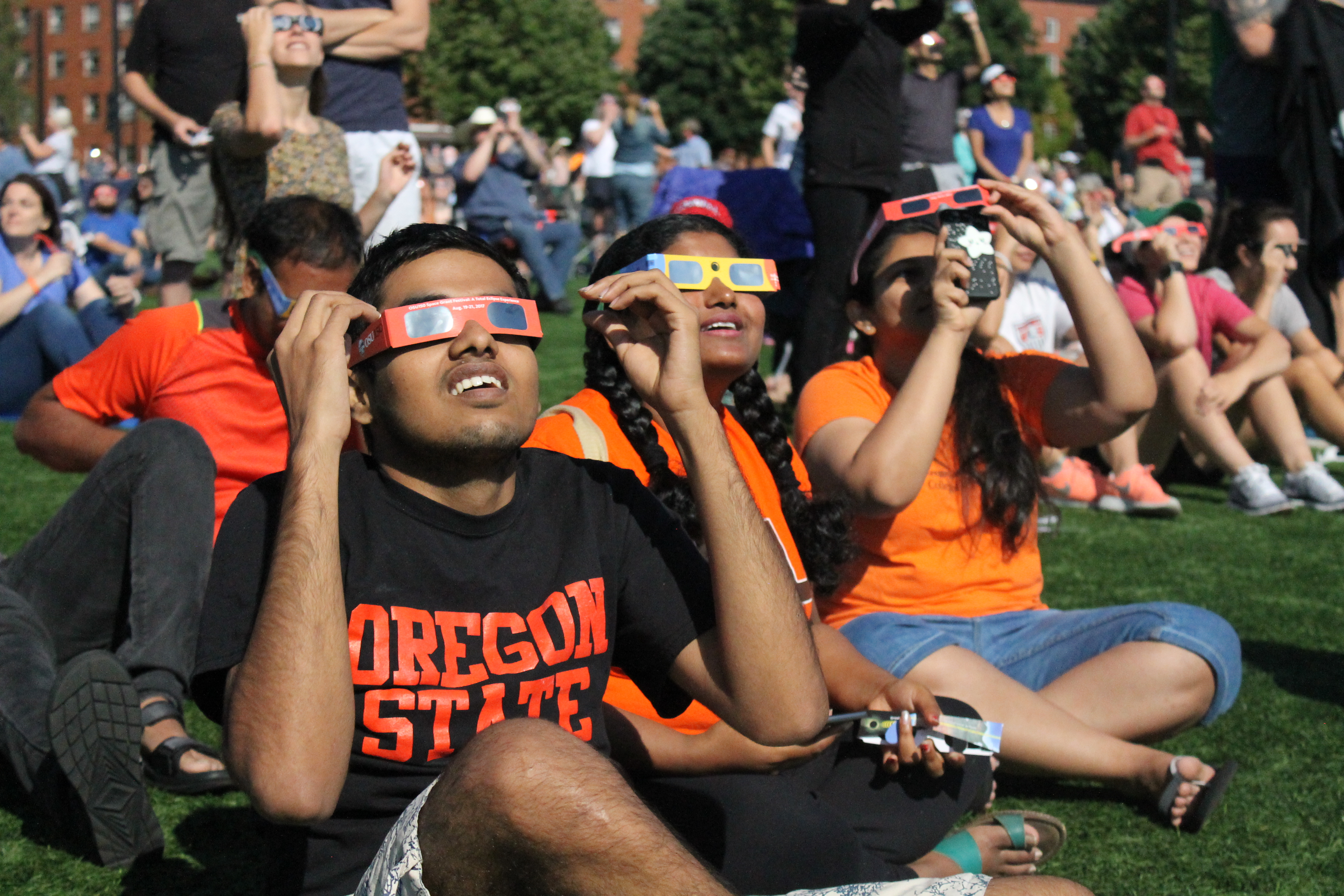 More than 5,000 people gathered on the Oregon State University campus on Aug. 21 to celebrate the solar eclipse as part of the OSU150 celebration. Date: Aug. 21, 2017 (photo: Theresa Hogue)